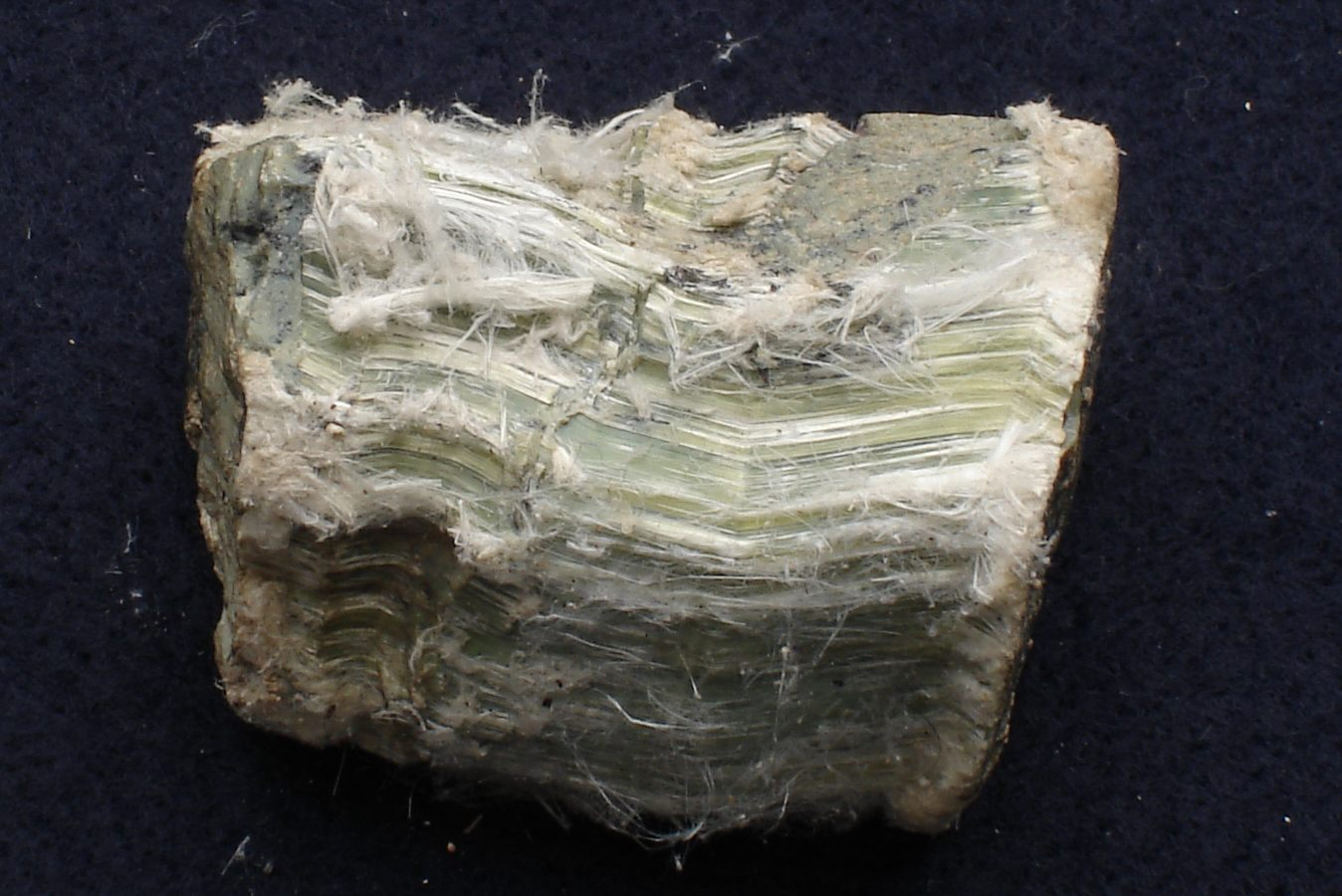 Chrysotile mineral, Brazil